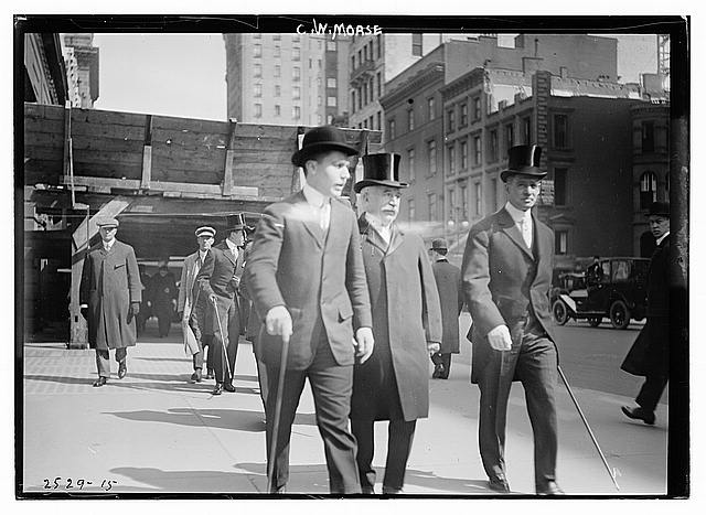 A photograph of Charles W. Morse (center) and unknown associates, published by the Bain News Service between 1910 and 1915 and available from the George Grantham Bain Collection at the Library of Congress.